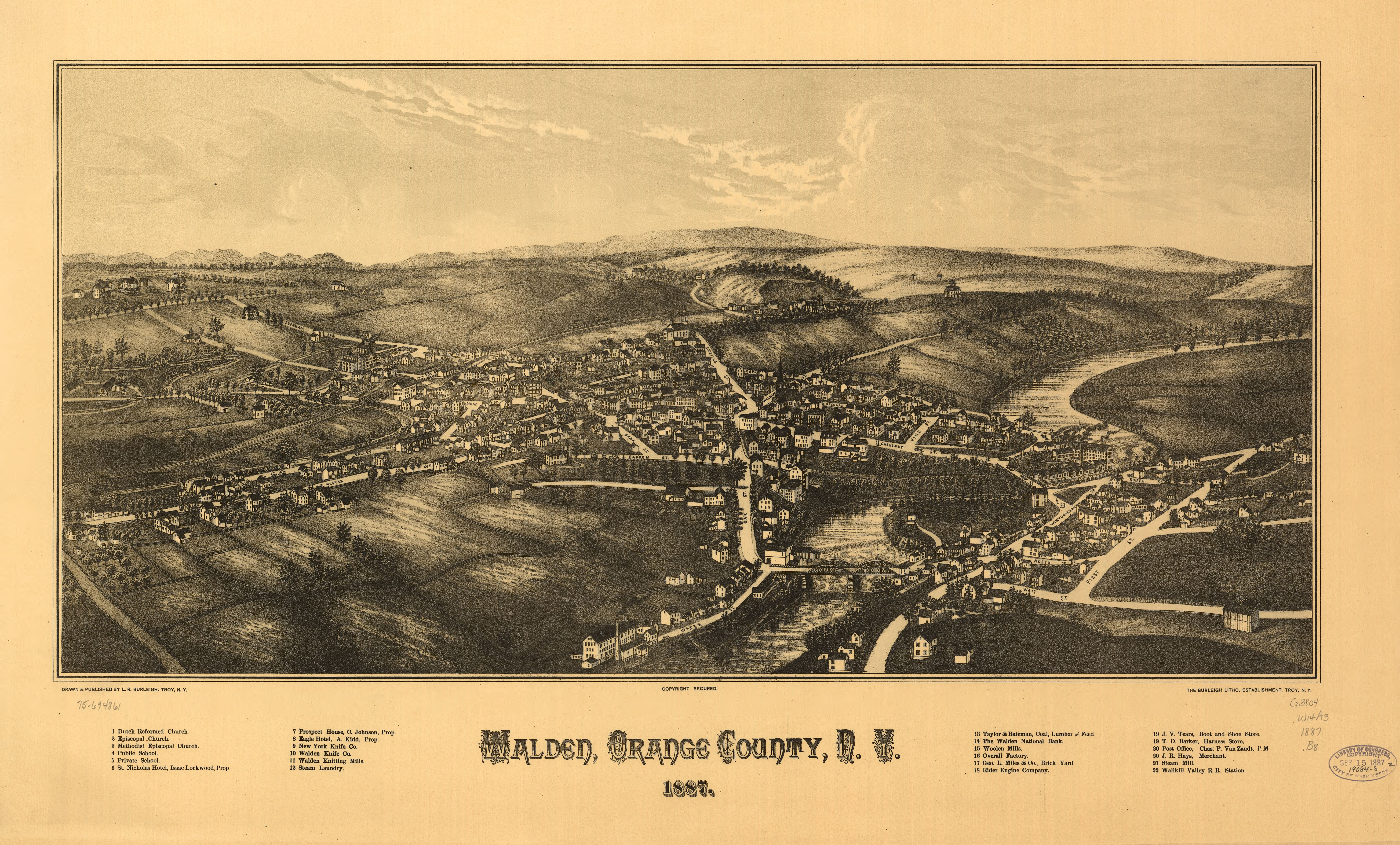 Perspective map not drawn to scale. Bird's-eye-view. LC Panoramic maps (2nd ed.), 646 Available also through the Library of Congress Web site as a raster image. Indexed for points of interest. AACR2